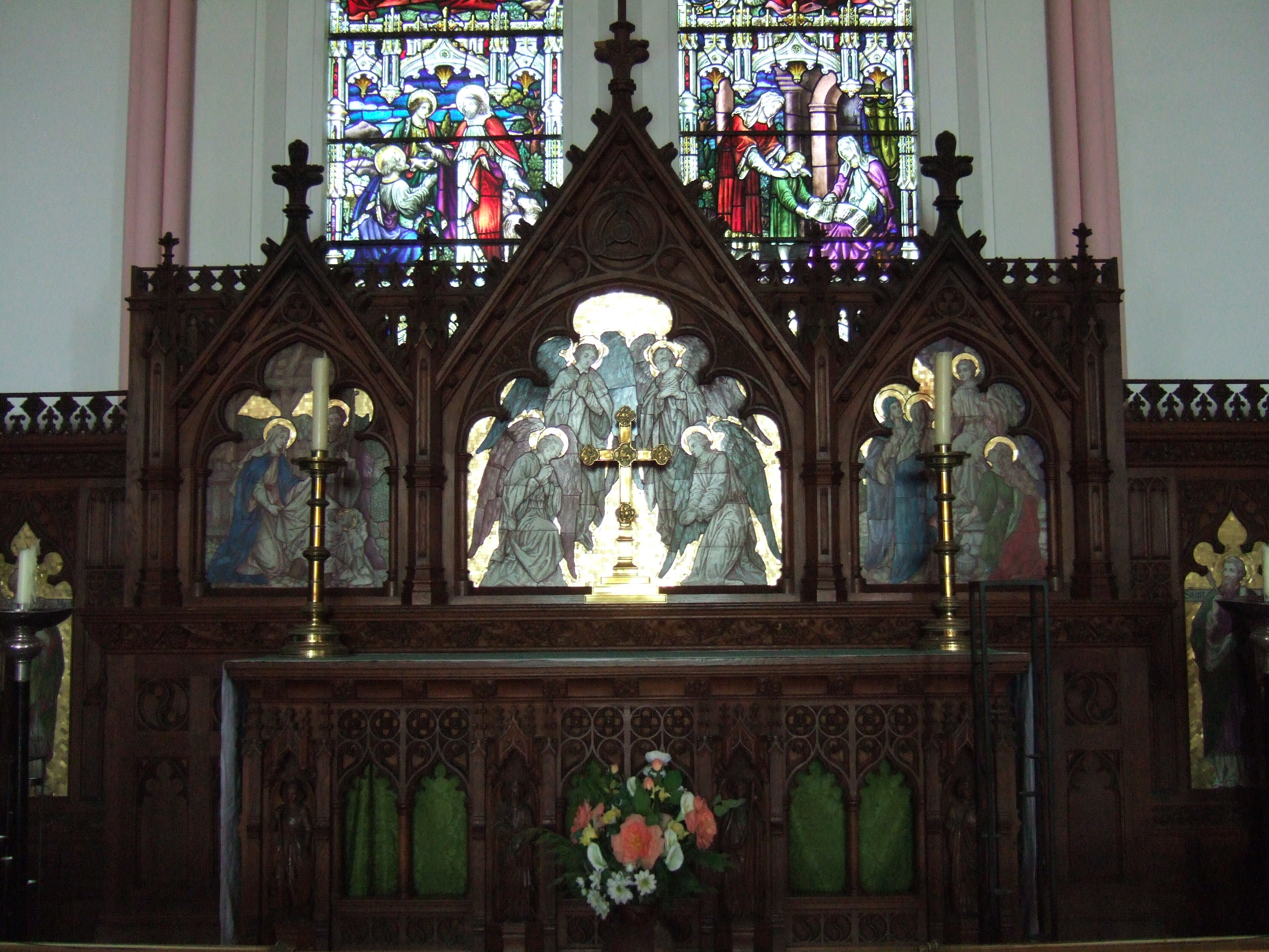 Holy Trinity Church, Wiltshire, England. Reredos.